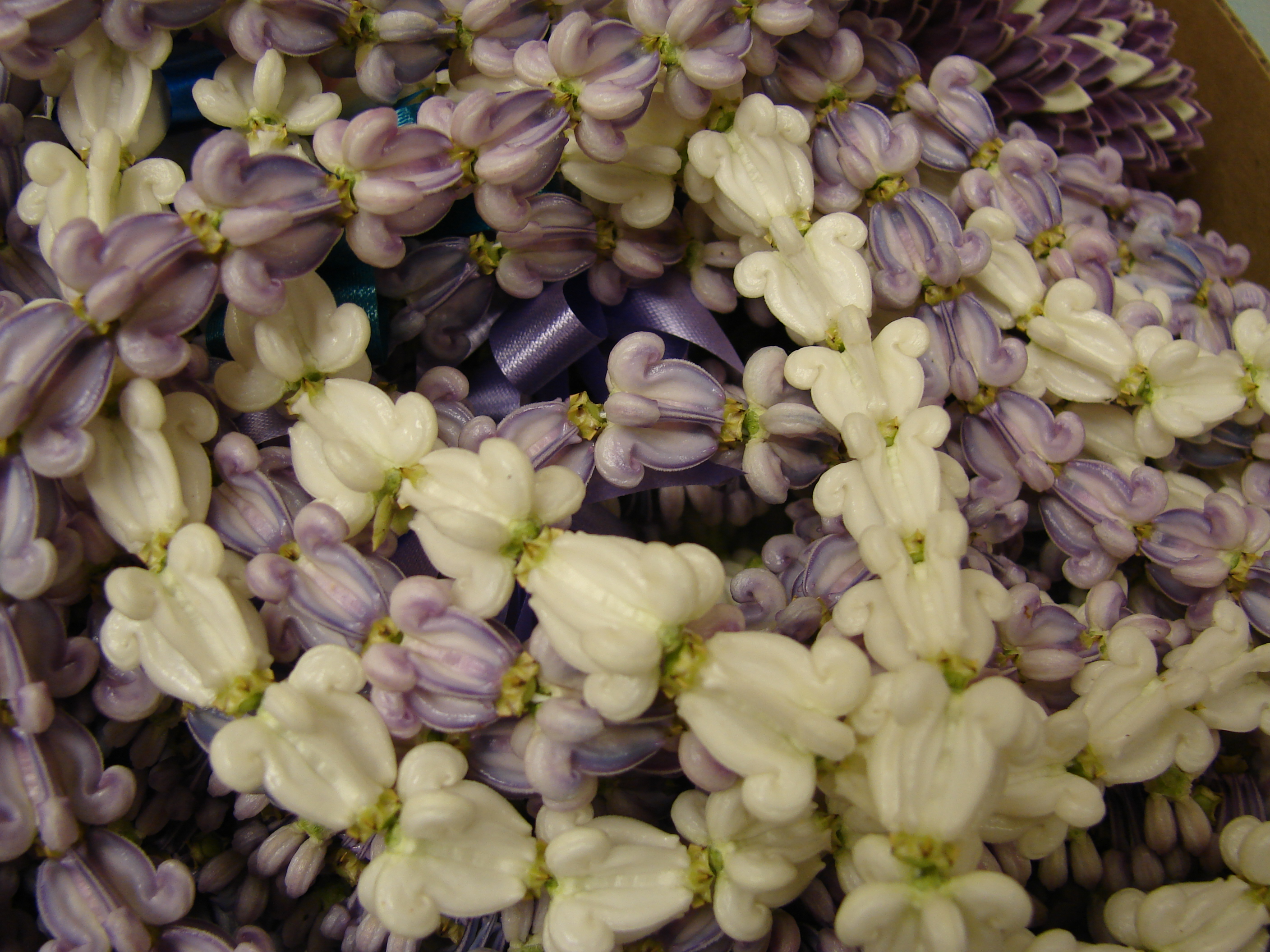 Calotropis gigantea (flower lei). Location: Maui, Foodland Pukalani